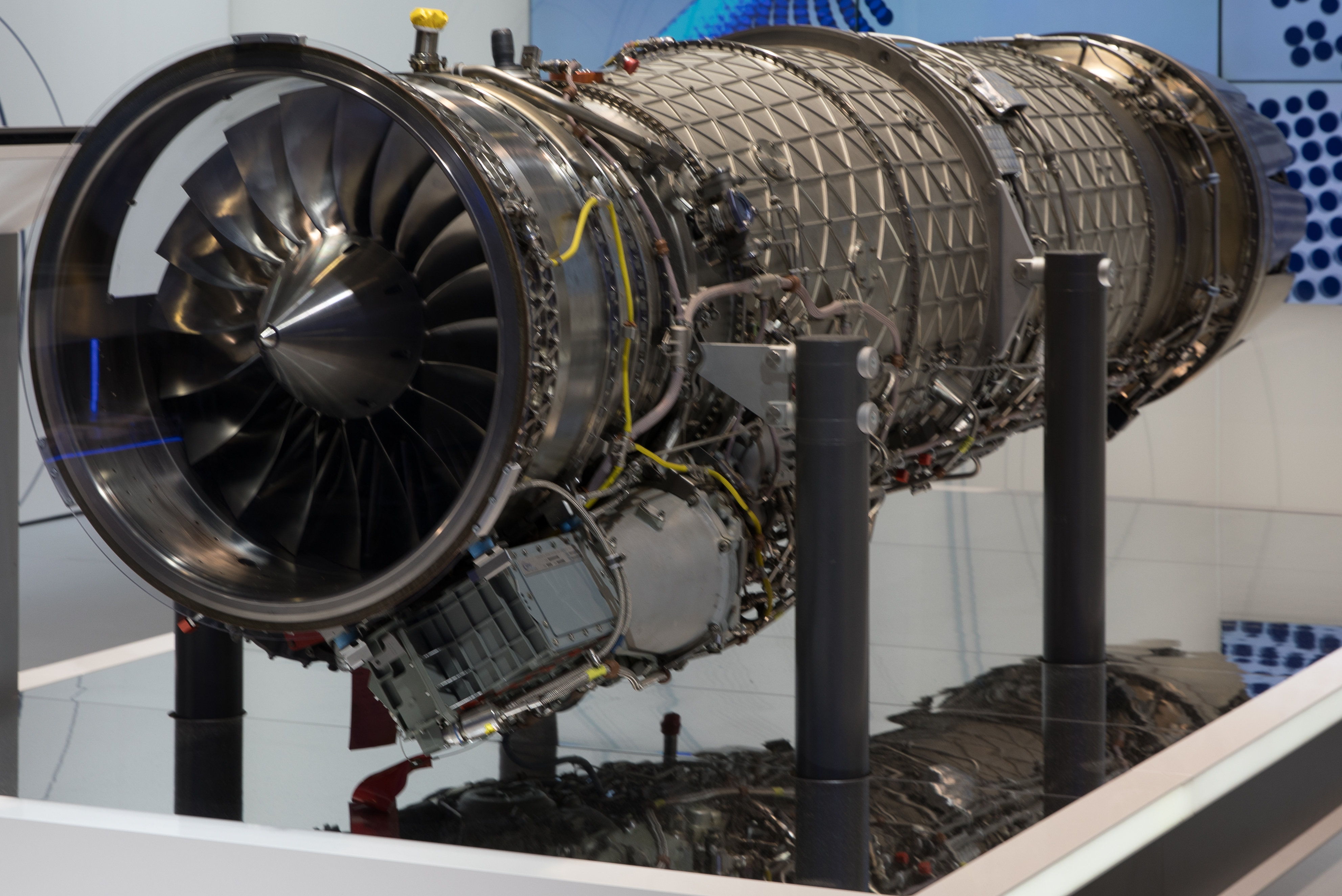 ILA 2018